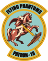 Insignia of the now deactivated US Navy VP-18 Aviation Patrol Squadron.